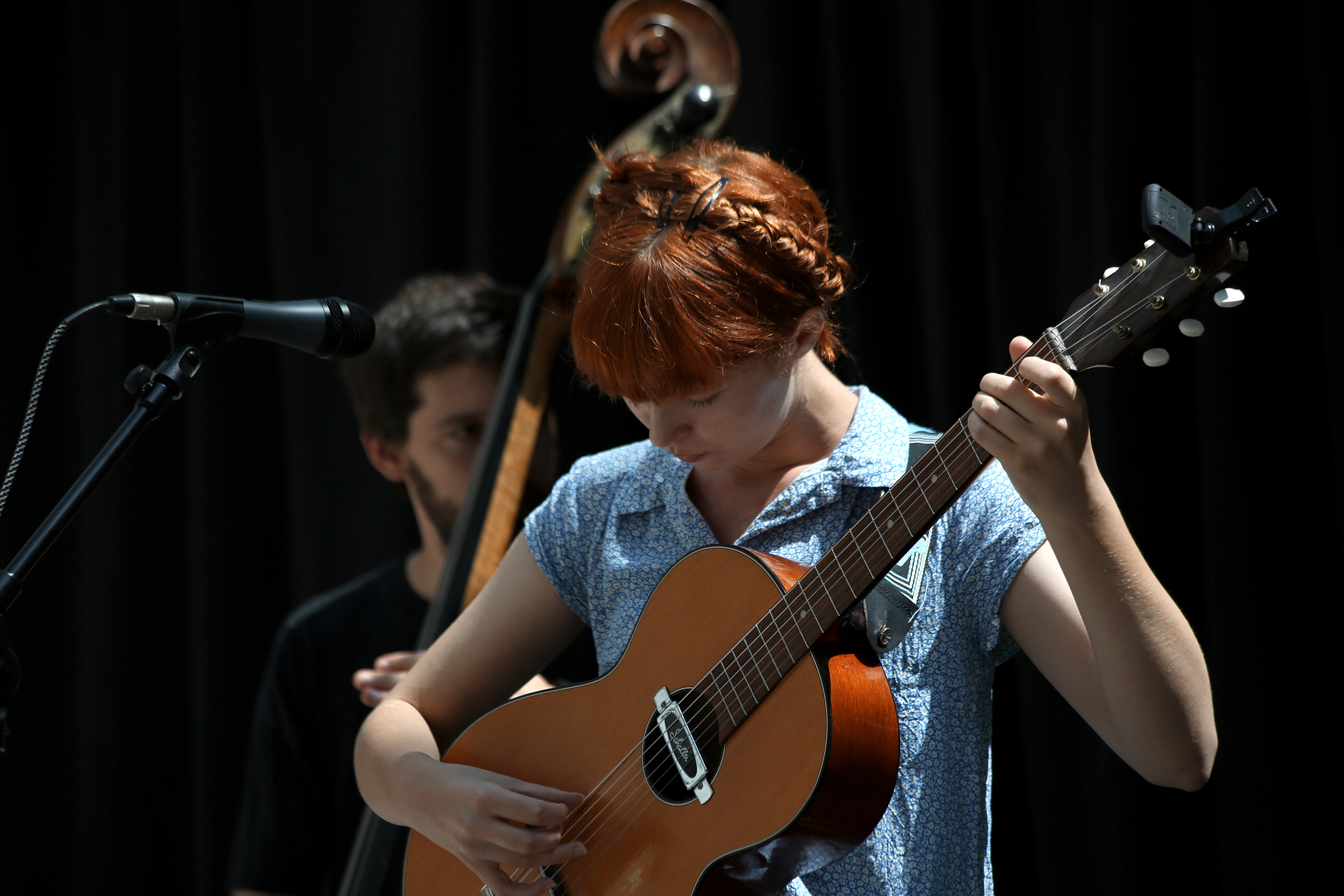 Schmieds Puls at the presentation of the program of Popfest 2014 in (Vienna Museum, Vienna, Austria).